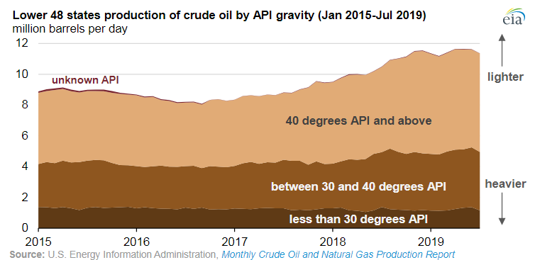 Since 2015, when EIA began collecting crude oil production data by API gravity, light crude oil production in the Lower 48 states has grown from an annual average of 4.6 million barrels per day (b/d) to 6.4 million b/d in the first seven months of 2019. October 11, 2019